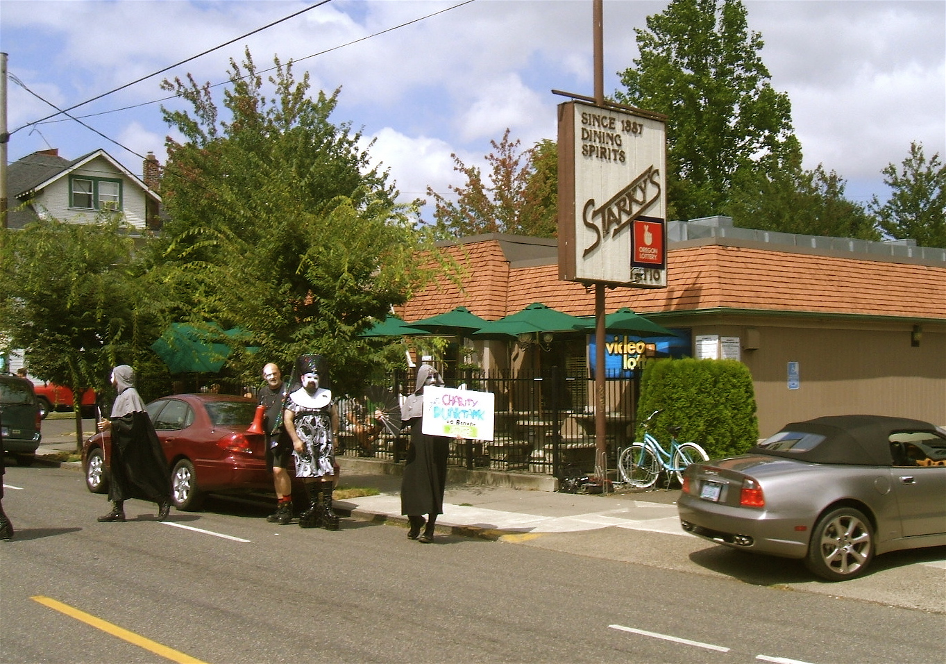 The Sisters were tireless promoters of the Studs & Suds event, drumming up business like crazy. I actually saw them talk a bicyclist into pulling in and paying for his bike to be washed. I'm not making this shit up.